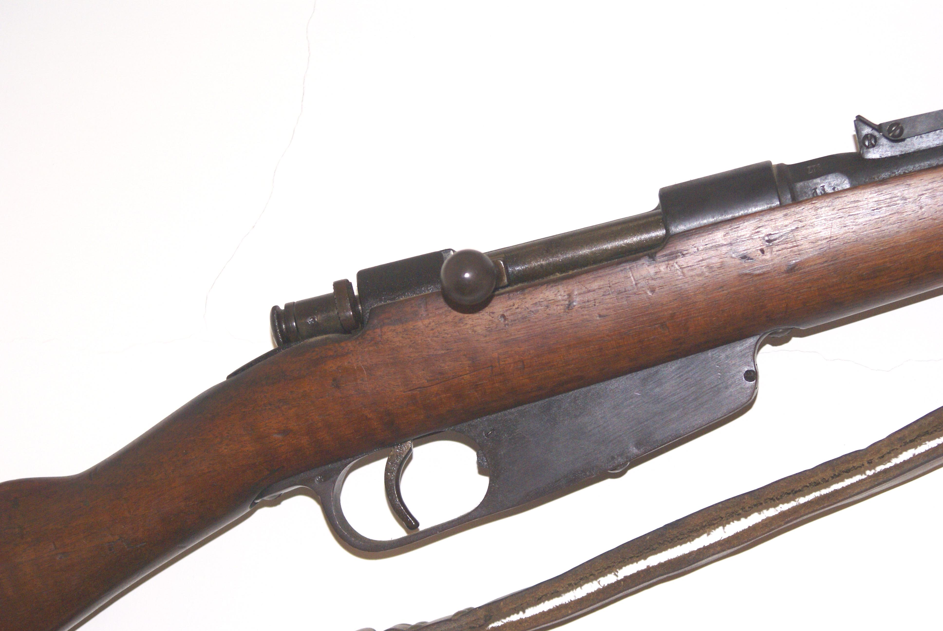 Italian Carcano Mod. 1891